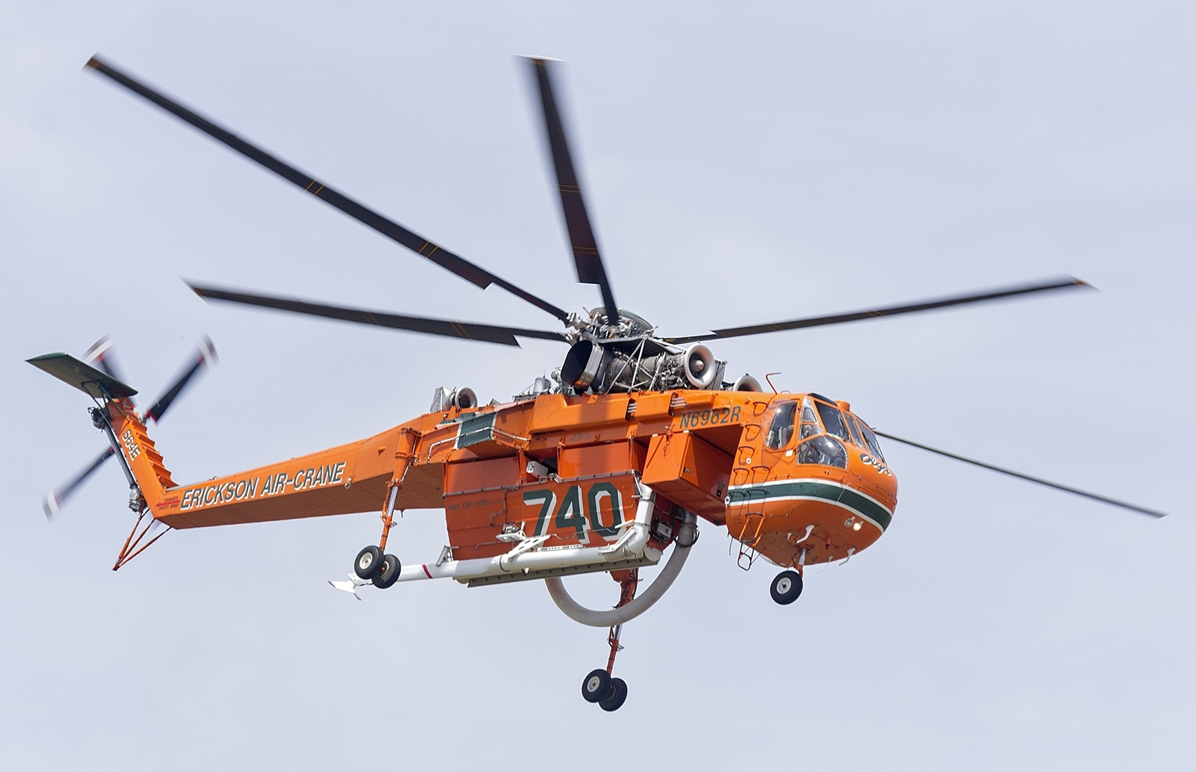 Erickson Air-Crane (N6962R) Sikorsky S-64E departing Wagga Wagga Airport.